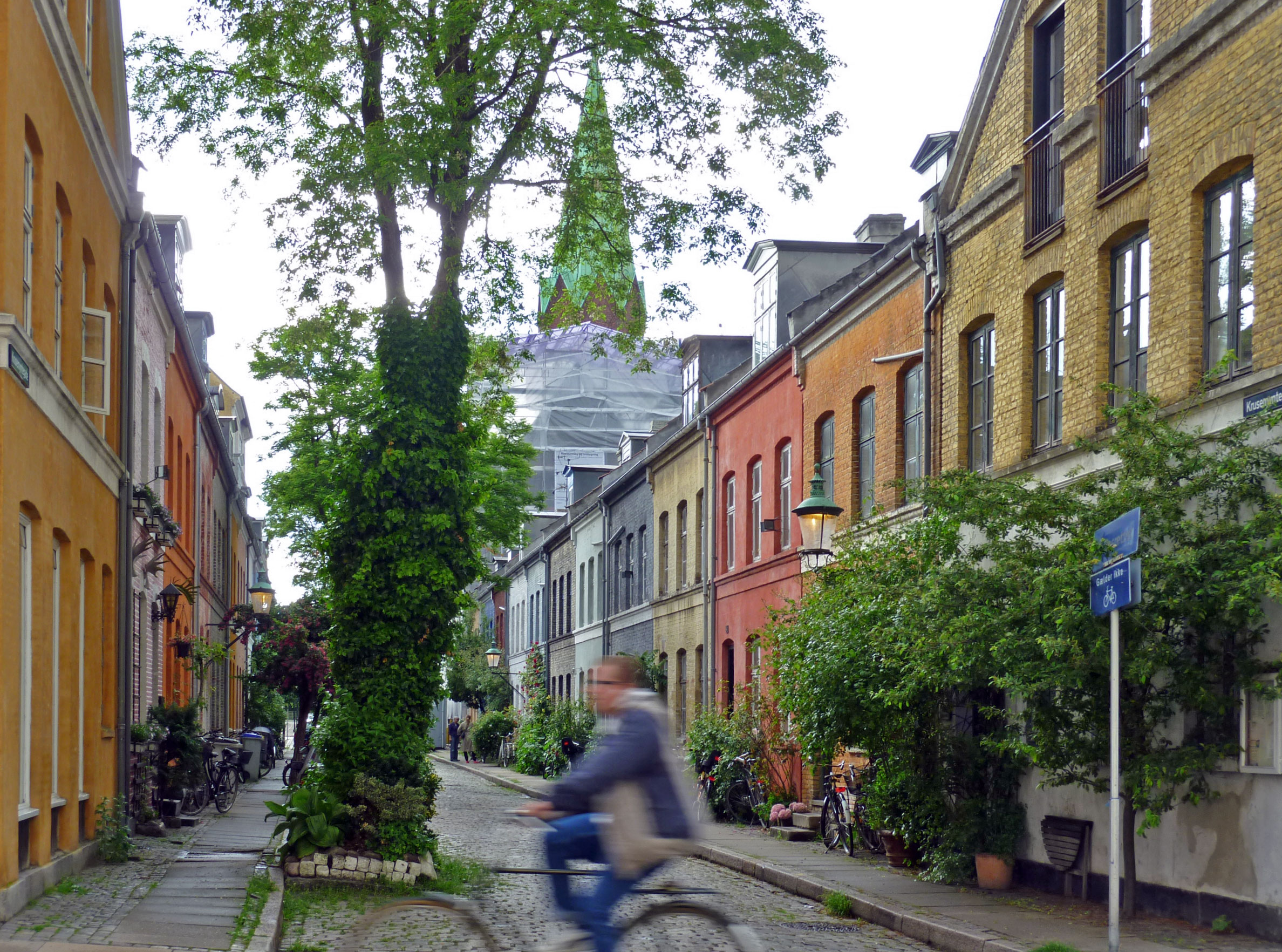 Krusemyntegade, a street in central Copenhagen, Denmark, which has some of the town houses built by the Workers' Building Society (Arbejdernes Byggeforening)